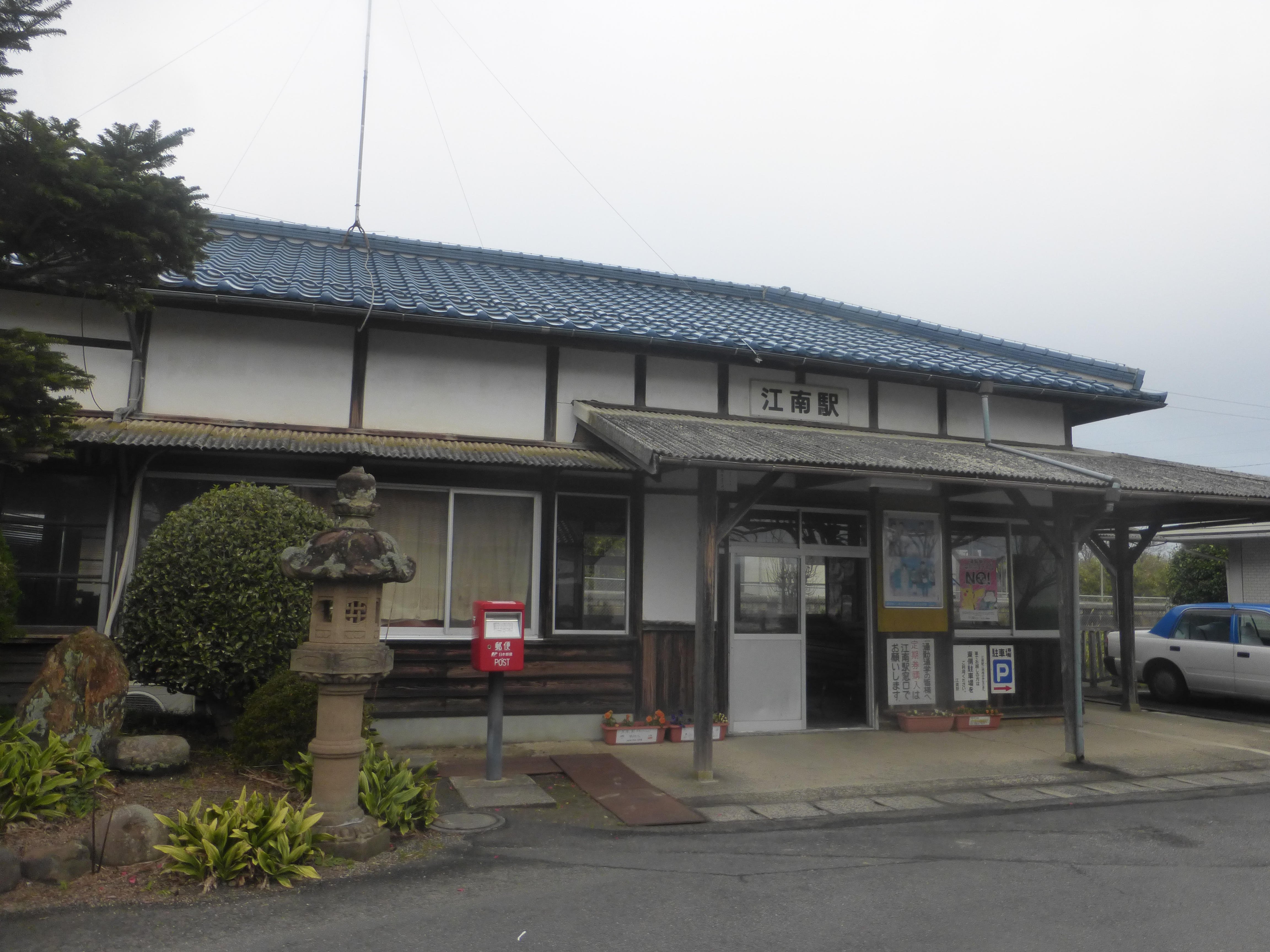 Kōnan Station (江南駅)